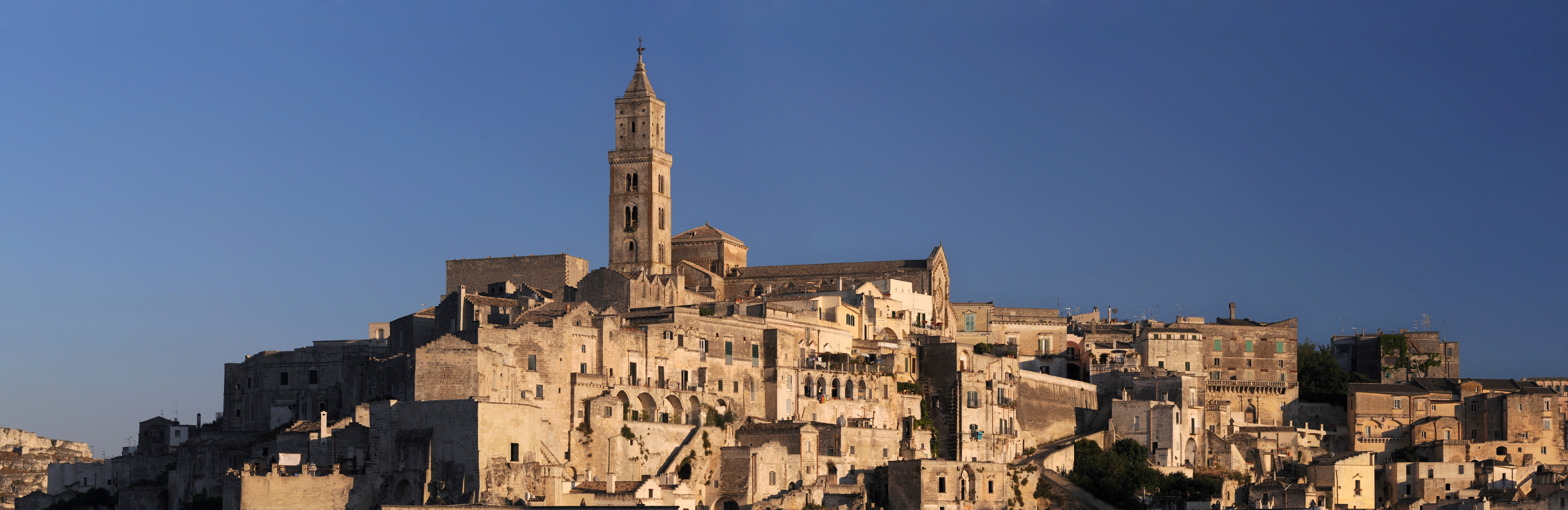 Il duomo (cathedral) + sassi (panoramic view), Matera, Italy.